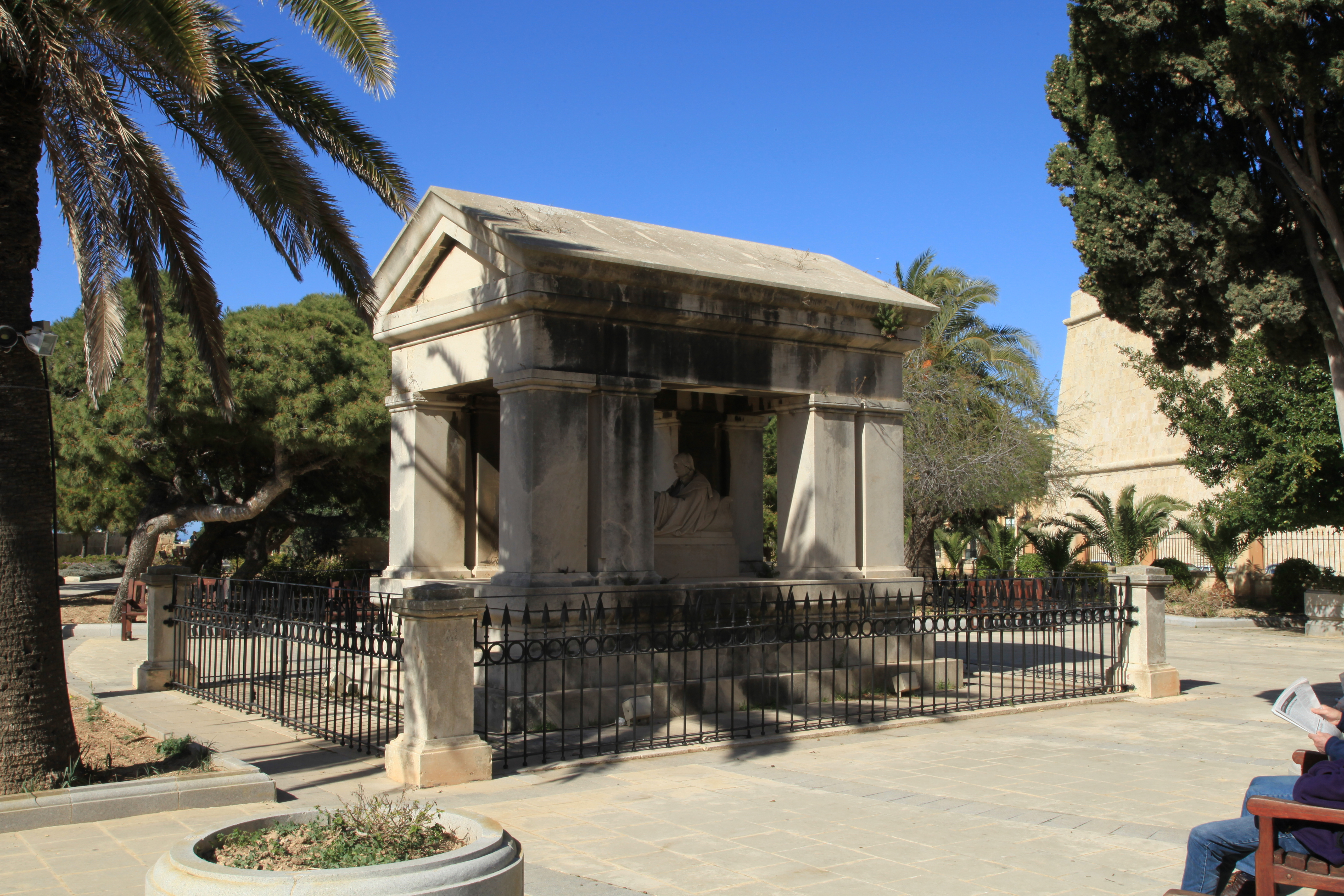 Monument to Lord Hastings, Hastings Gardens, Triq il-Papa Piju V in Valletta, Malta